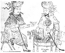 "Conversation"miniature from Baku (Azerbaijan). Now in Istanbul